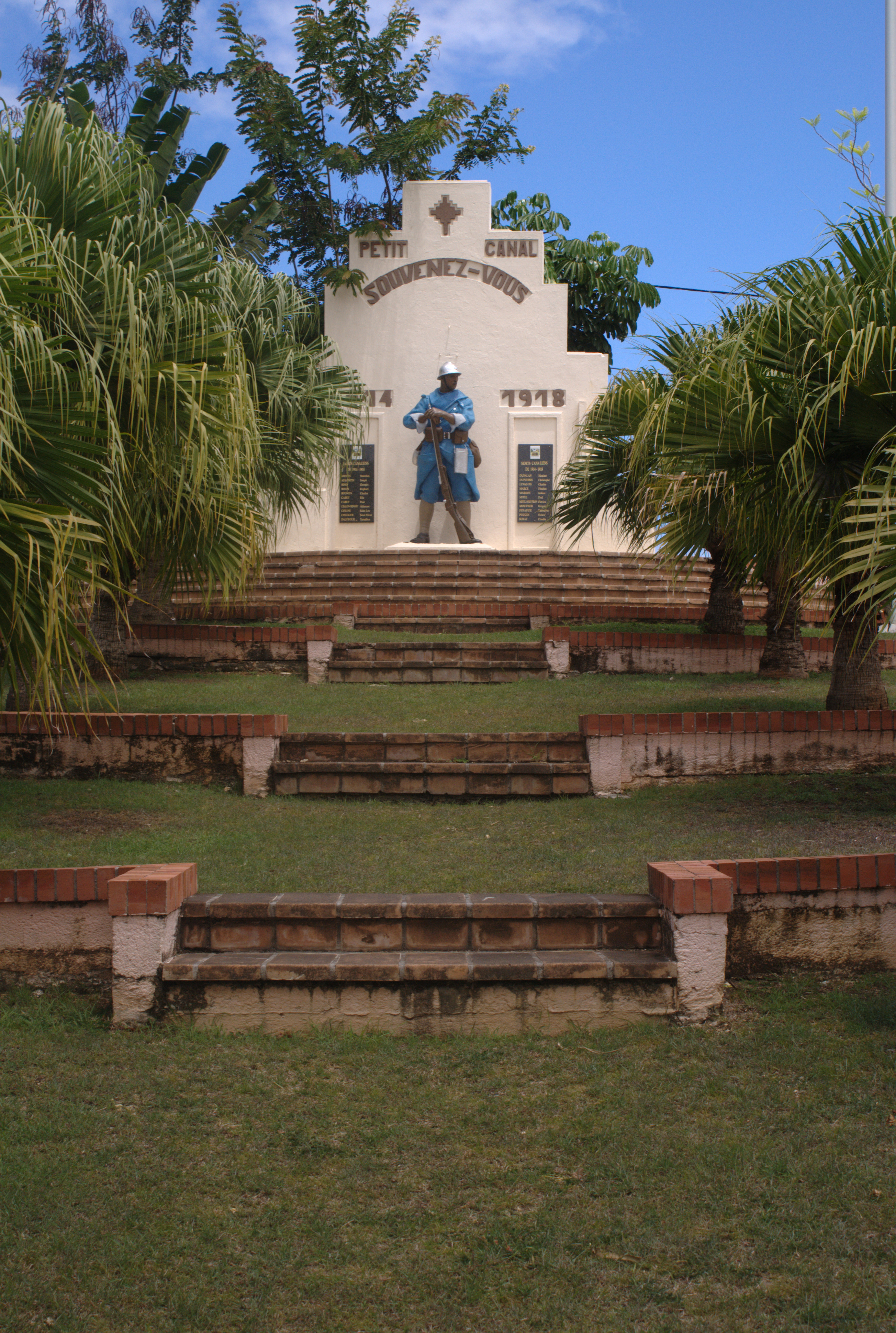 World War I monument in Petit-Canal, Guadeloupe.